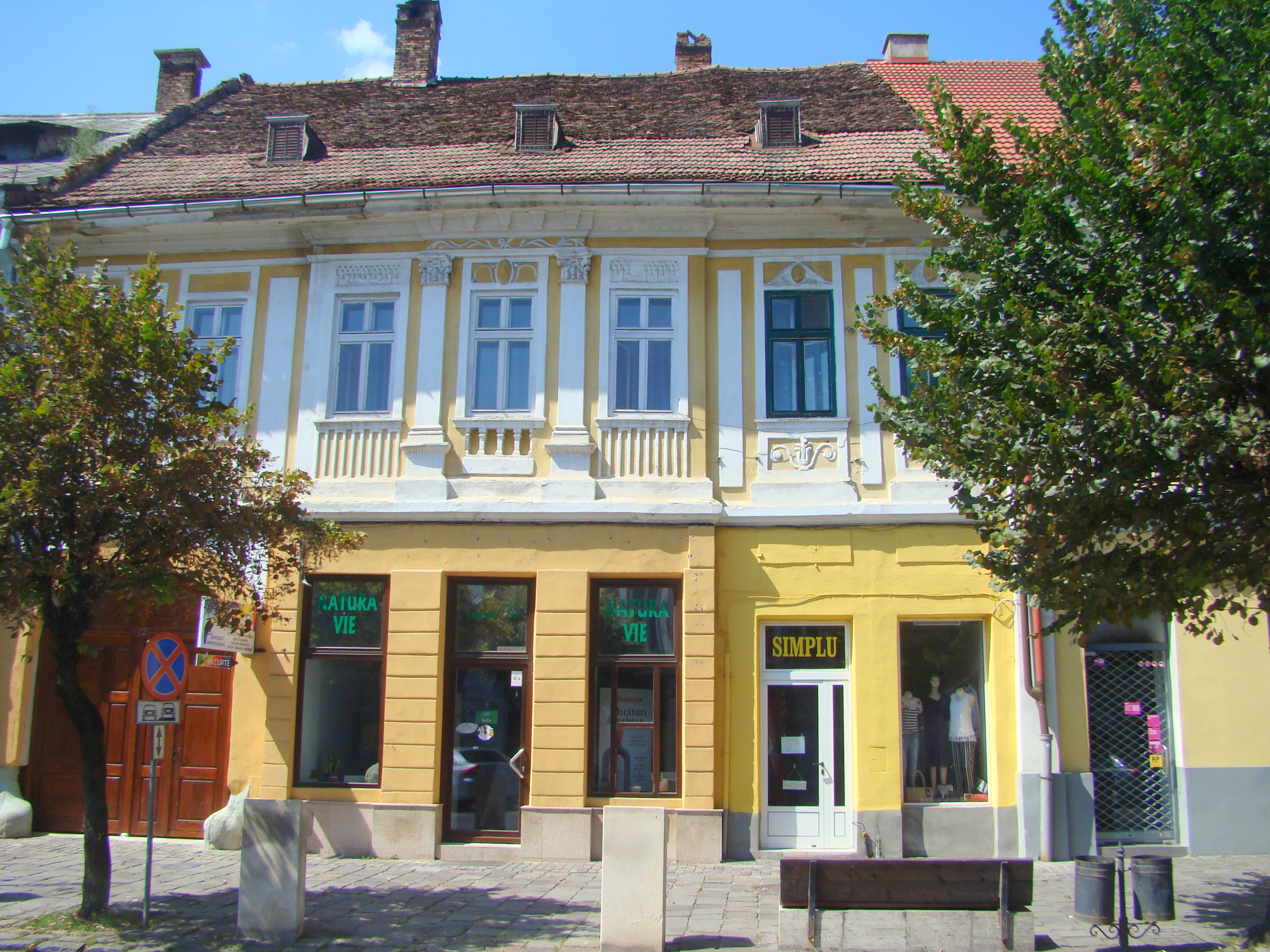 House, historic monument, in Bistrița, Gheorghe Șincai street 12